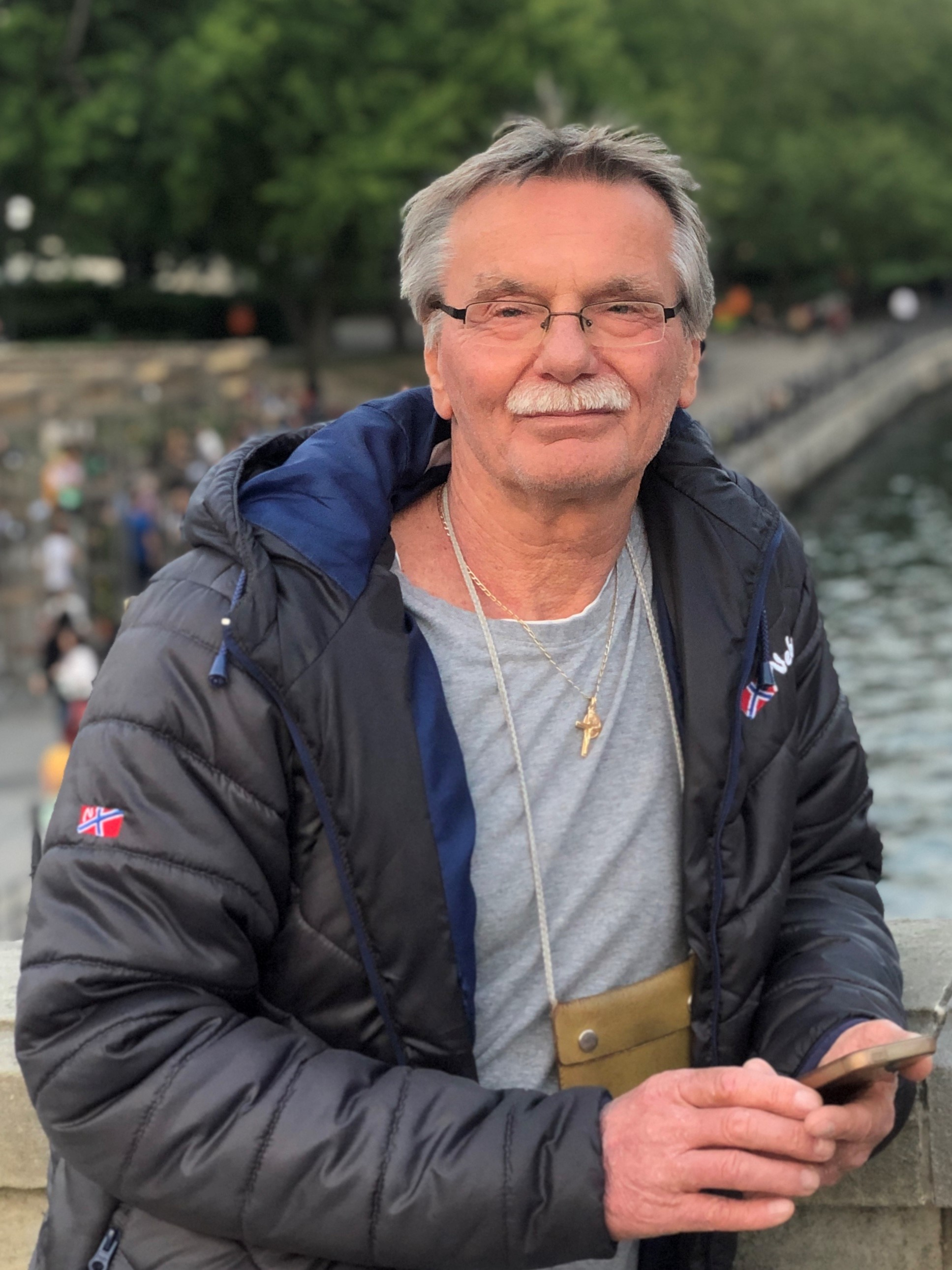 Michael Piwowarski (born November 14, 1948), retired German football player and trainer